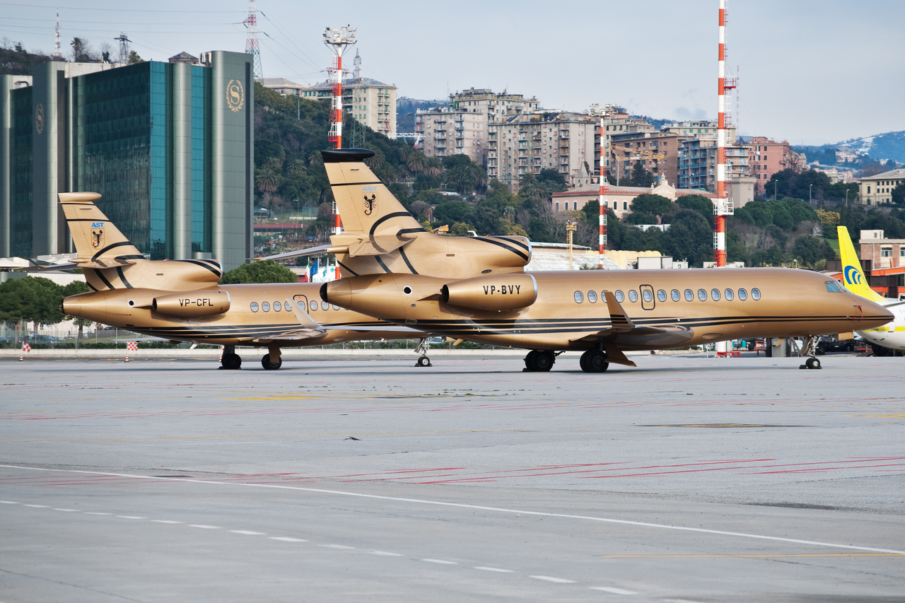 A Dassault Falcon 900EX (VP-CFL) and Dassault Falcon 7X (VP-BVY) at Genoa Airport